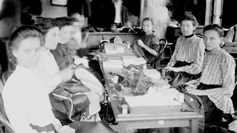 Image of eight girls sitting and facing a narrow table, sewing by hand on material held in their laps, during a sweatshop inspection in Chicago, Illinois. The girls are all looking at the camera. Courtesy of the Chicago Historical Society.